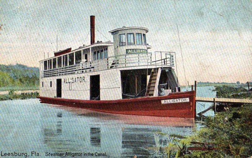 Steamer Alligator in the Canal, Leesburg, Florida, after 1906 rebuild removing the upper Captain's deck.